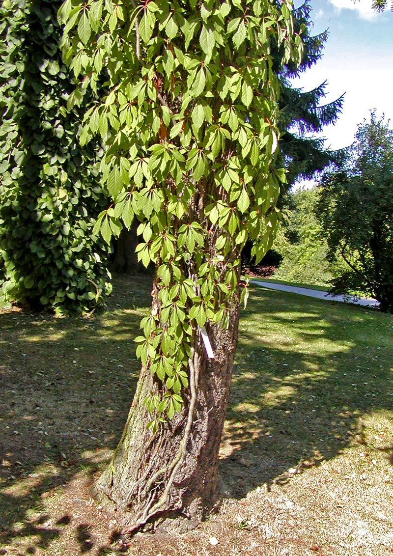 Photo of Parthenocissus quinquefolia var. engelmannii at Aarhus Botanical Garden